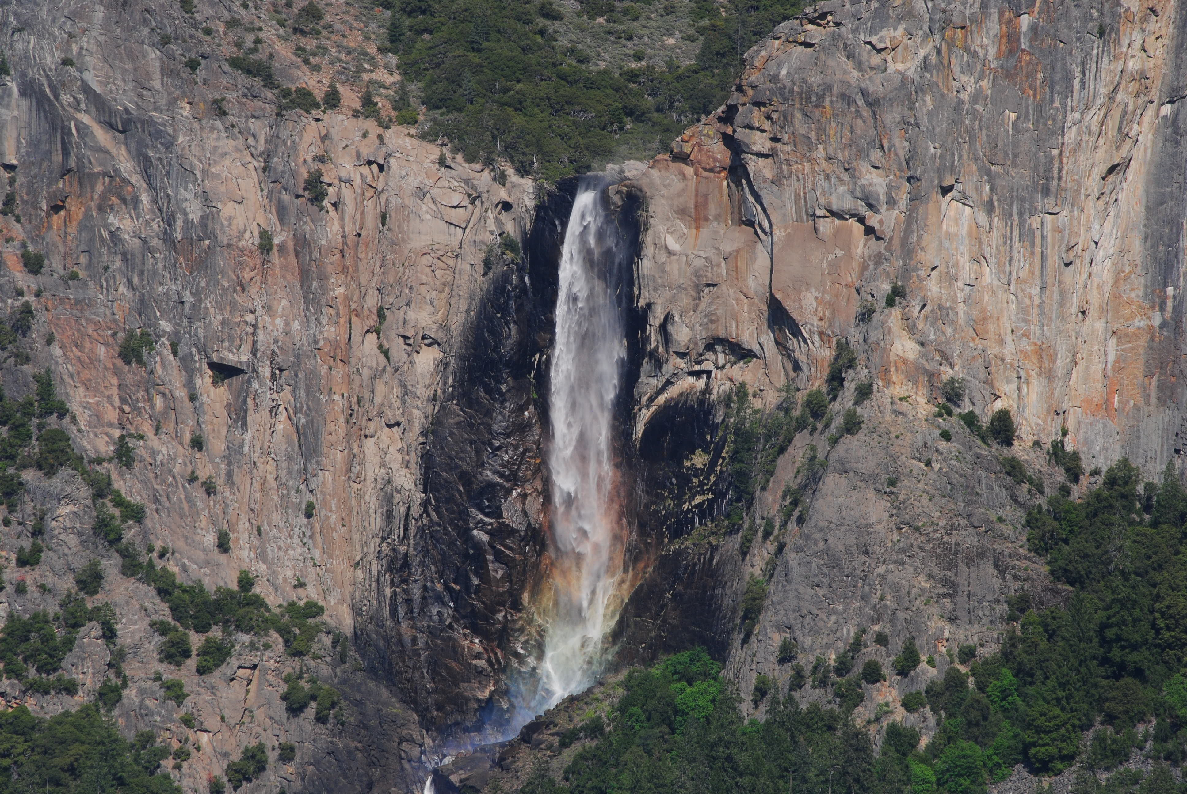 View of Bridelveil Falls from Tunnel View on CA Route 41